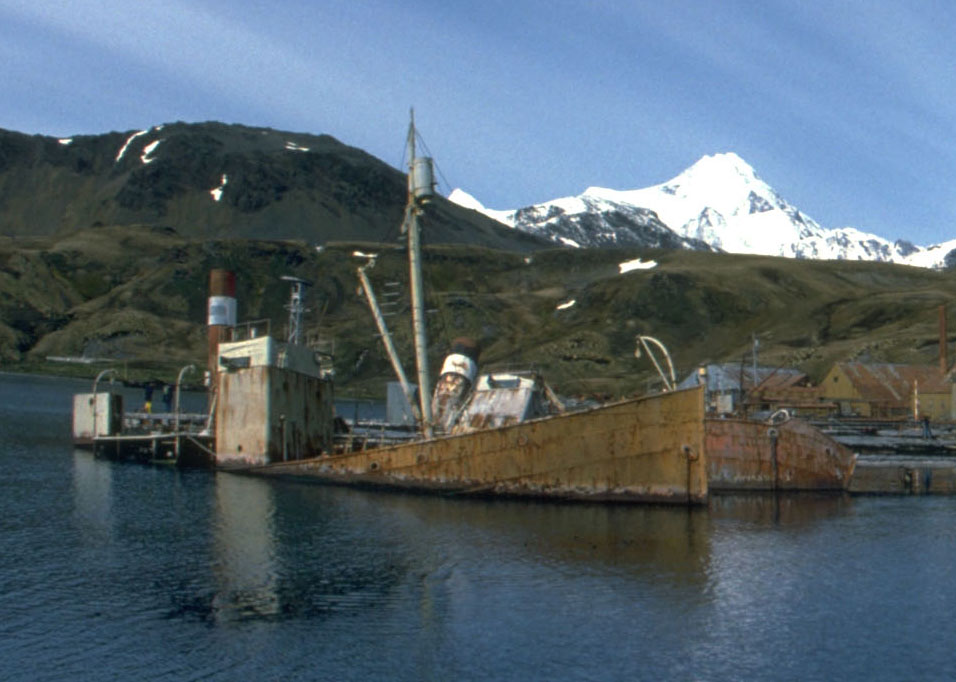 Sealers "Viola-Dias" and "Albatros" foundered at Grytviken